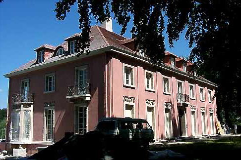 Winston Churchill Villa in Babelsberg at the conference of Potsdam, 1946